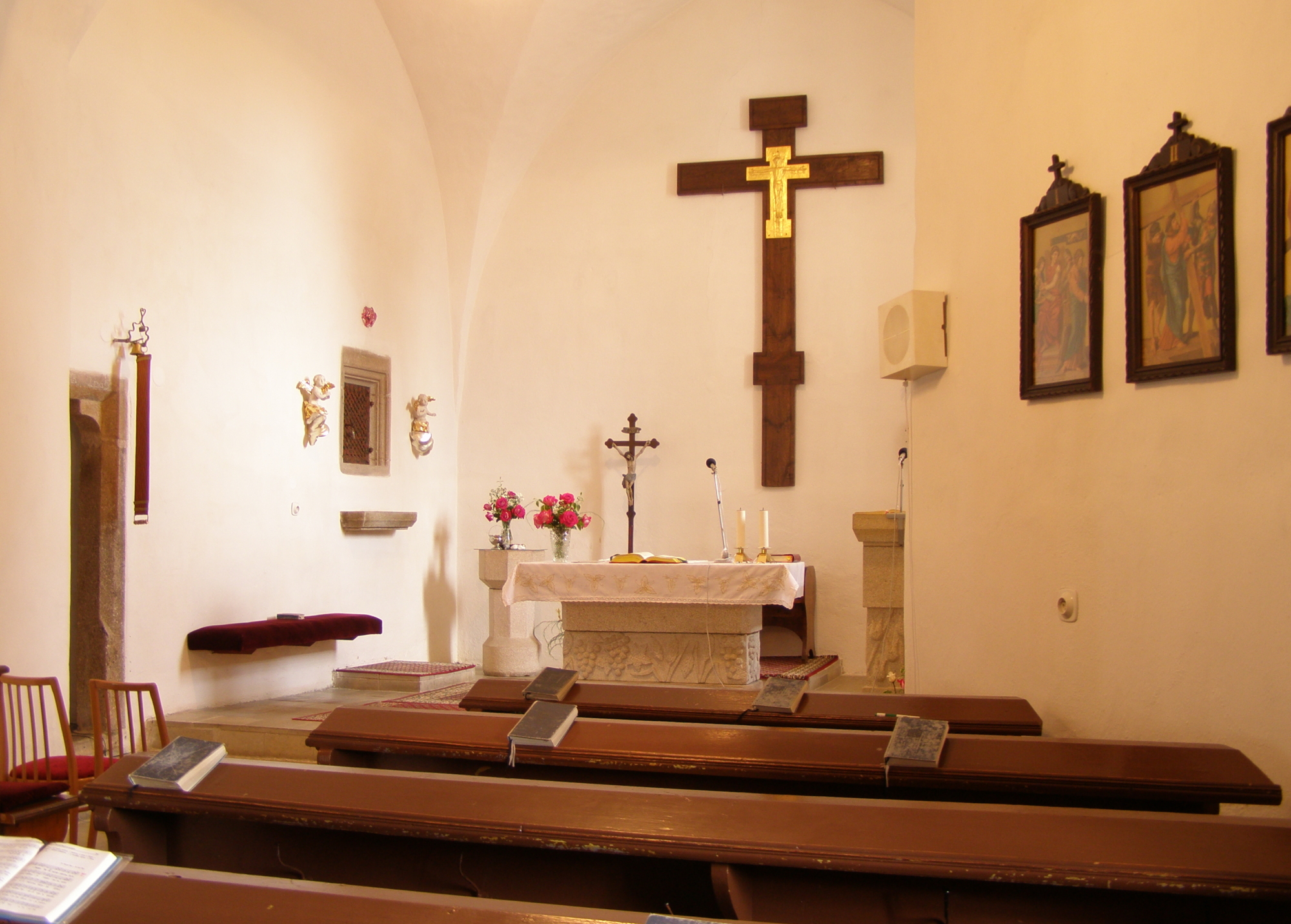 Šebkovice. Saint Mary Magdalene church. Interior